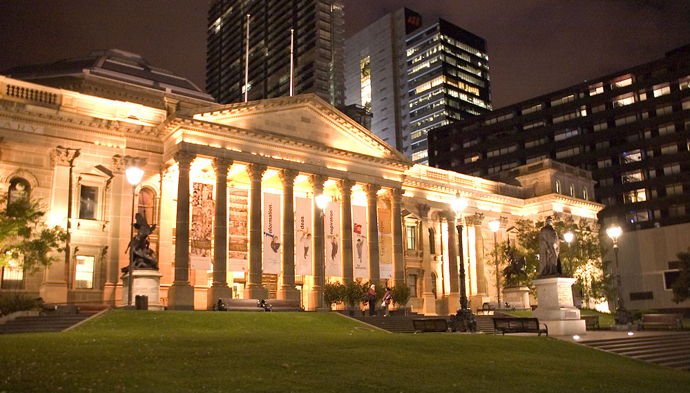 Taken by Anthony Agius